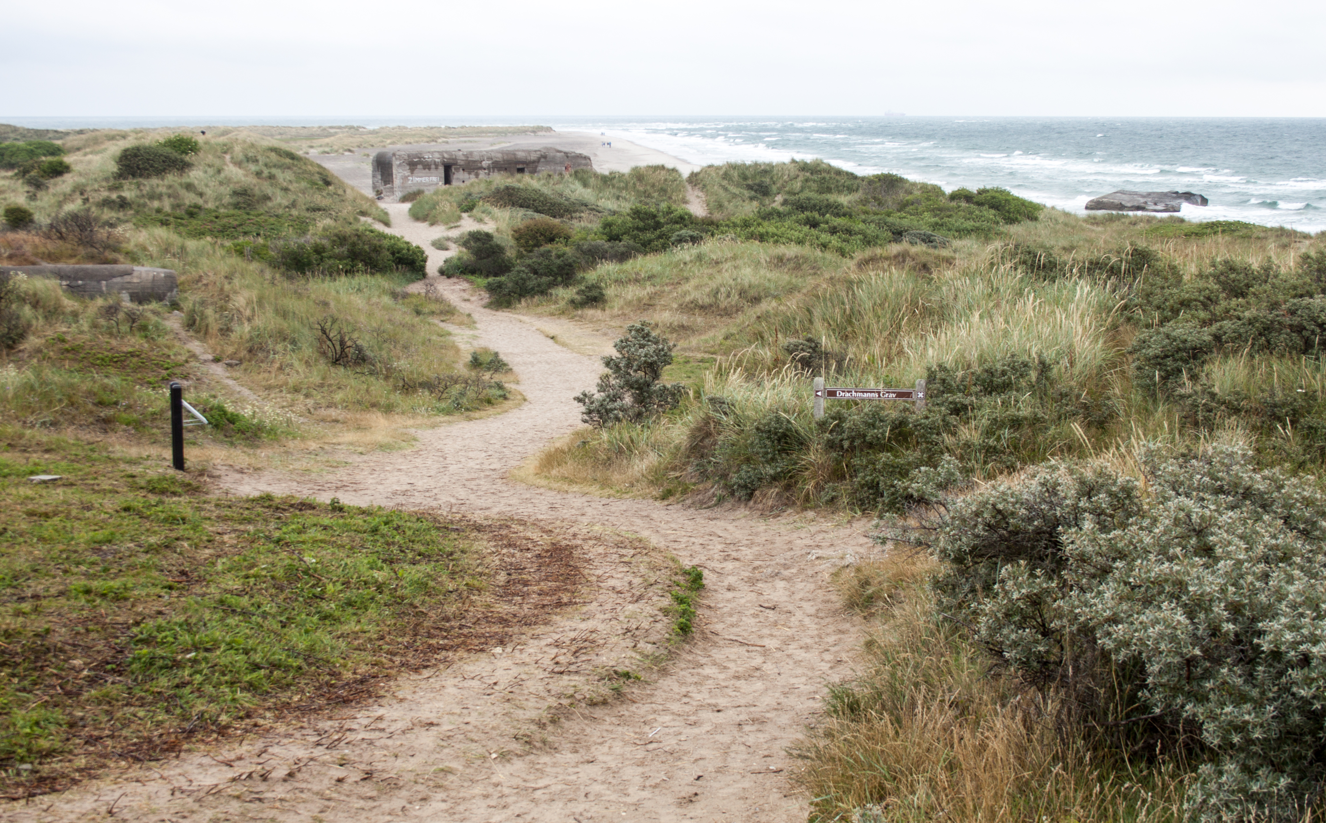 View over the dunes on the east side of Grenen